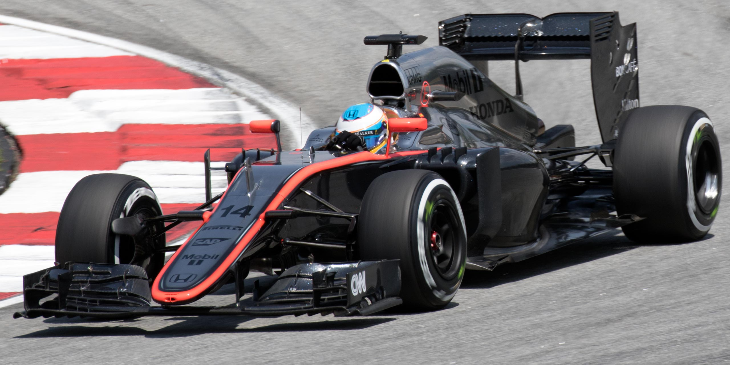 Formula One 2015 Rd.2 Malaysian GP: Fernando Alonso (McLaren)